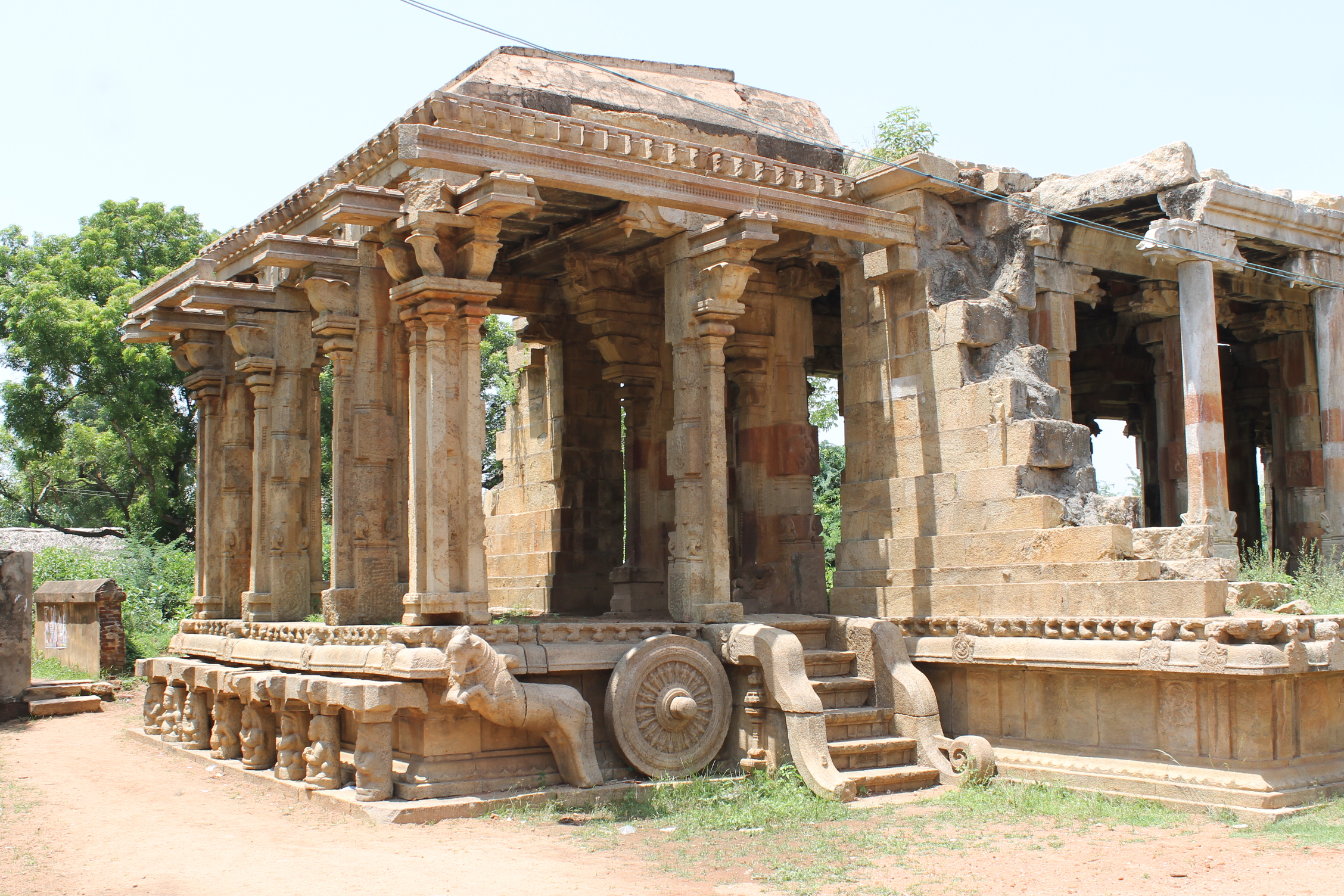 "Hall Of Hundred Pillared Mandapam Or Car 1". Location: Kunnandarkoil, Pudukottai district, Tamil Nadu, India.